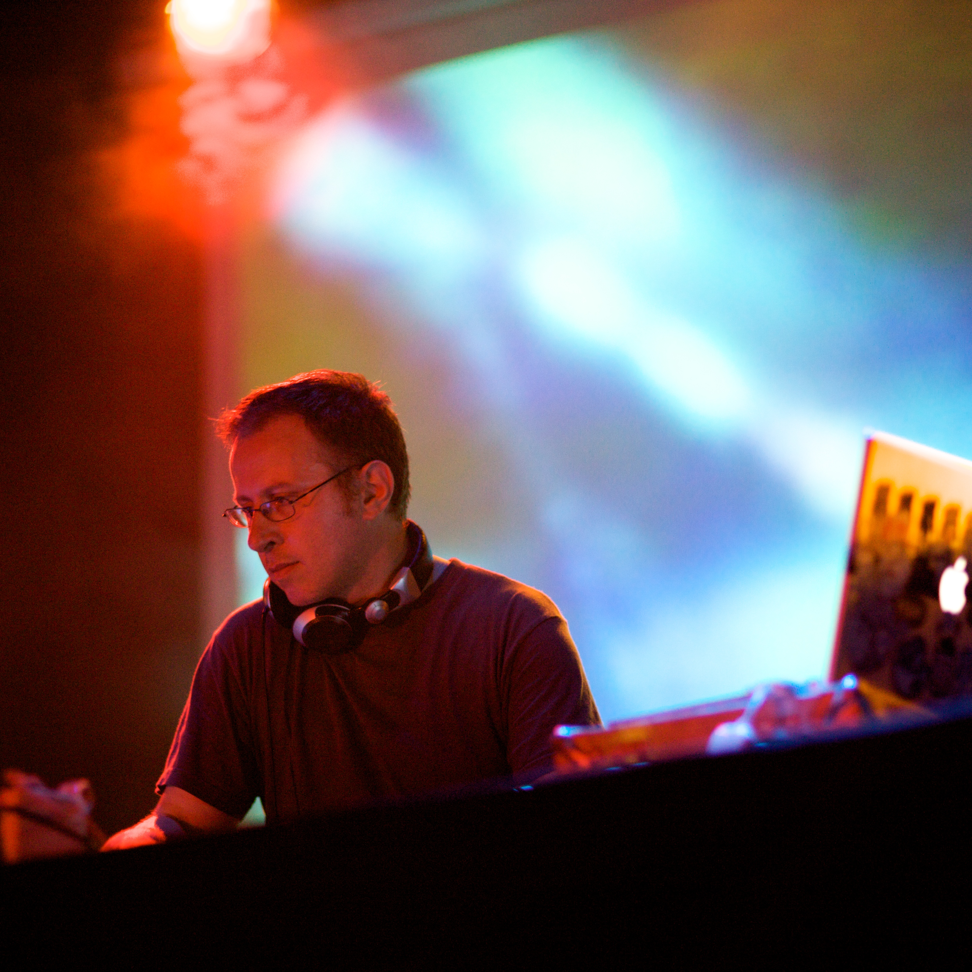 Strictly Kev (DJ FOOD) performing at Moldejazz, Molde, Norway, in 2009.